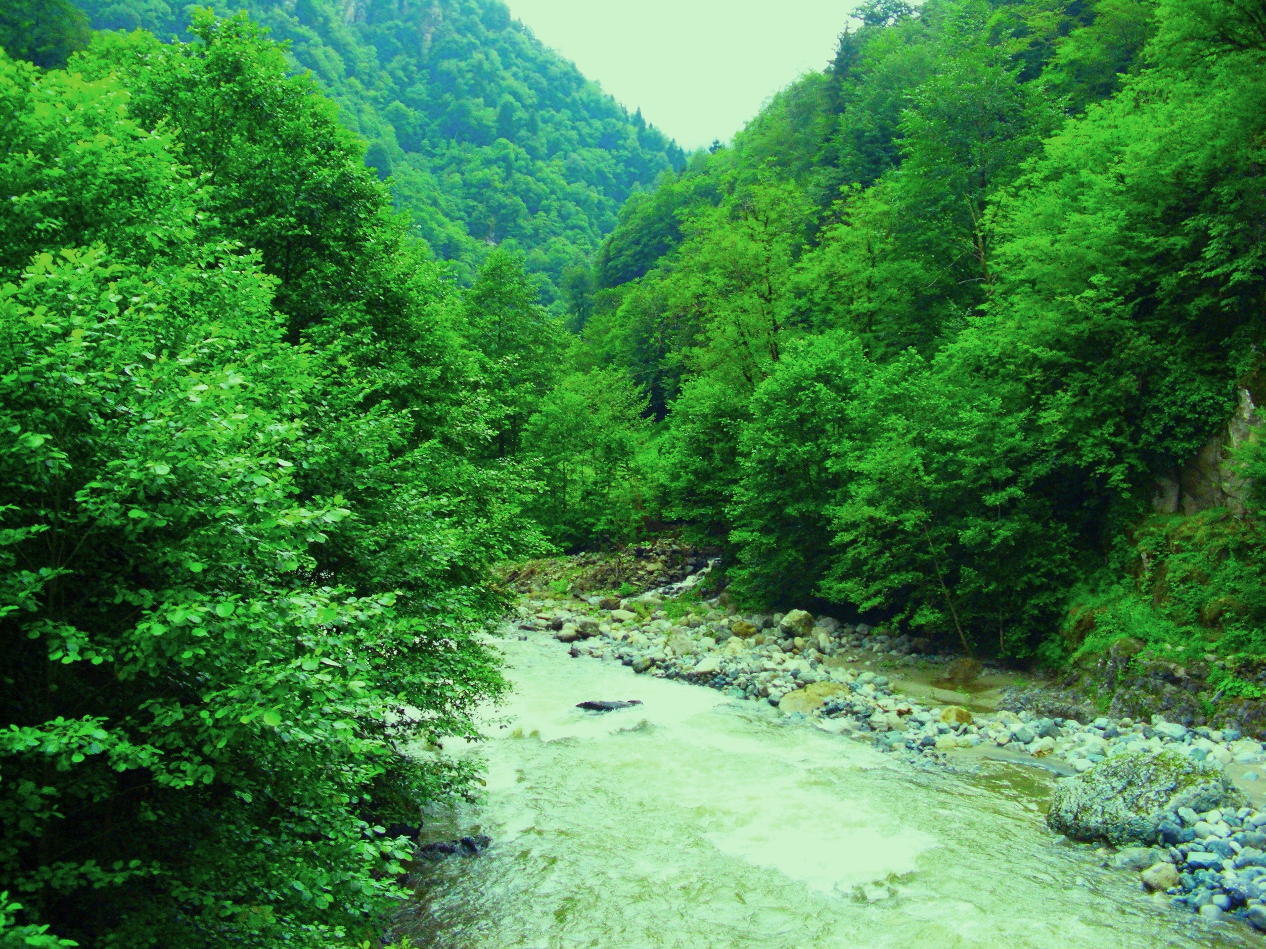 Firtina Deresi (means "tempest stream" in eng.) in Çamlıhemşin District of Rize Province located in the Black Sea Region of Turkey.